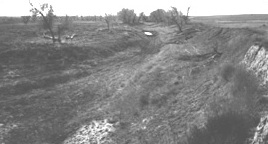 View of the Lower Cimarron Spring, a National Historic Landmark near the city of Ulysses in Grant County, Kansas, United States.